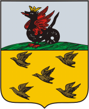 Cheboksary (Chuvashia), coat of arms (1781)